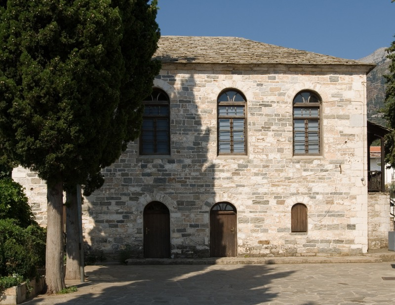 External view, image from the Polygnotos Vayis Municipal Museum, Potamia, Thasos, East Macedonia, Greece